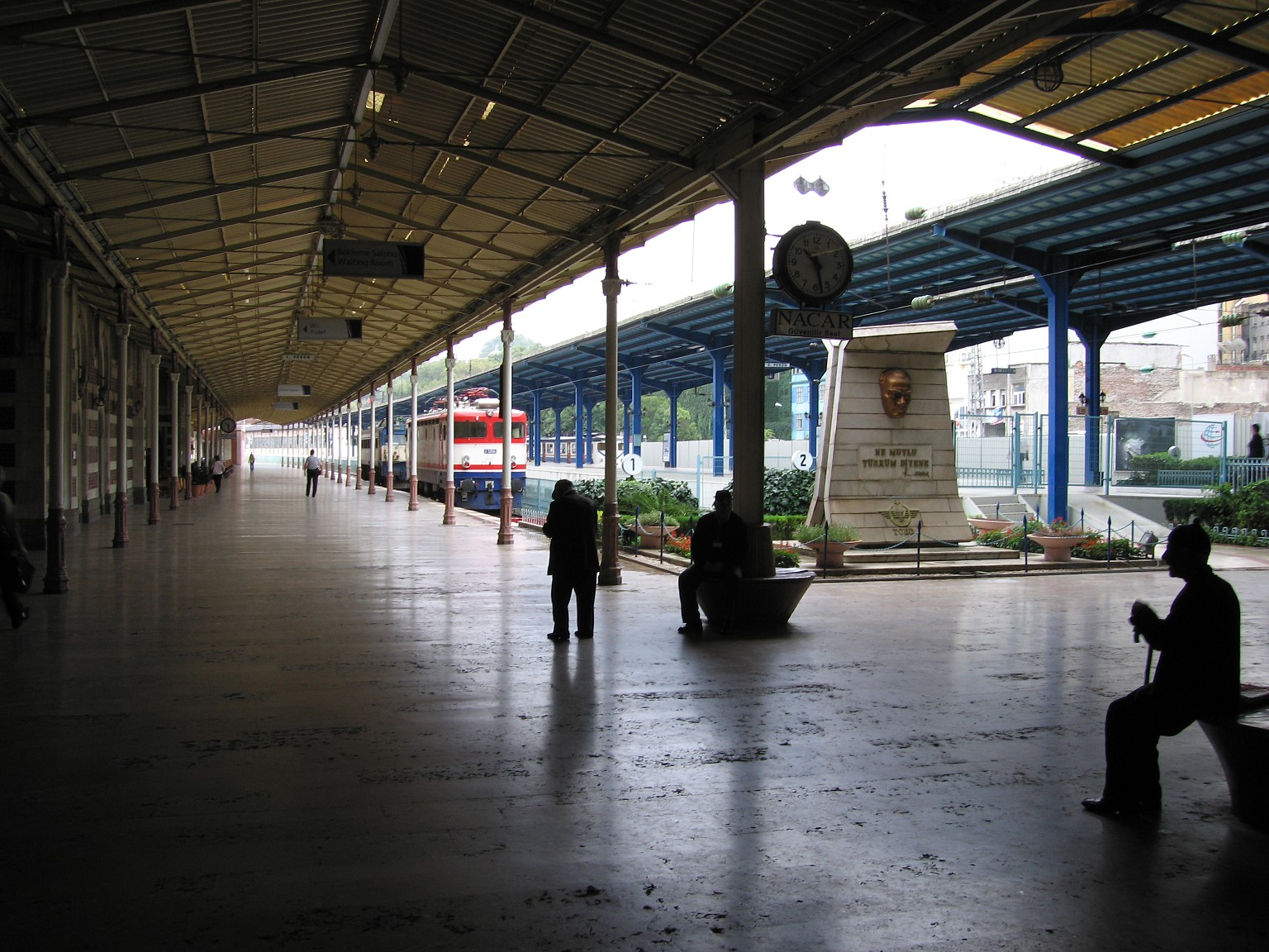 Interior of Sirkeci train station in Istanbul, Turkey